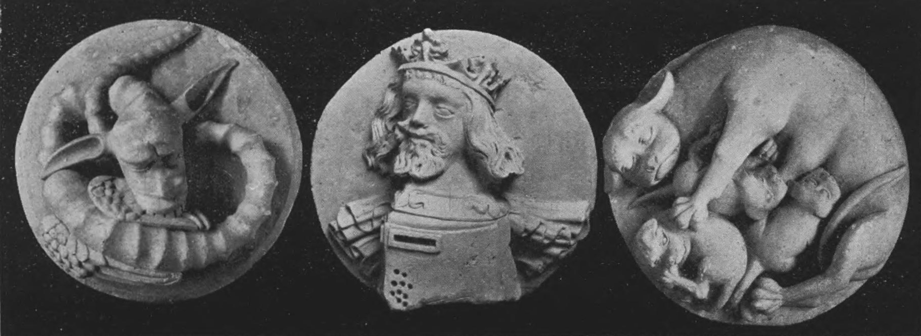 Bosses from "Gothic Room" in Kamienica Hetmańska (Hetmańska House), Market Square, Kraków, Poland.